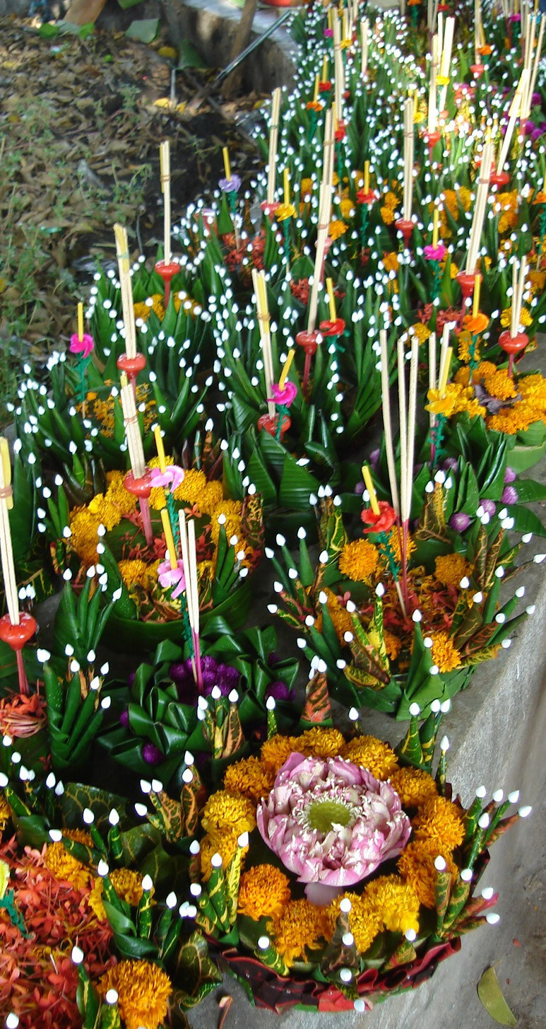 Loi krathong rafts.